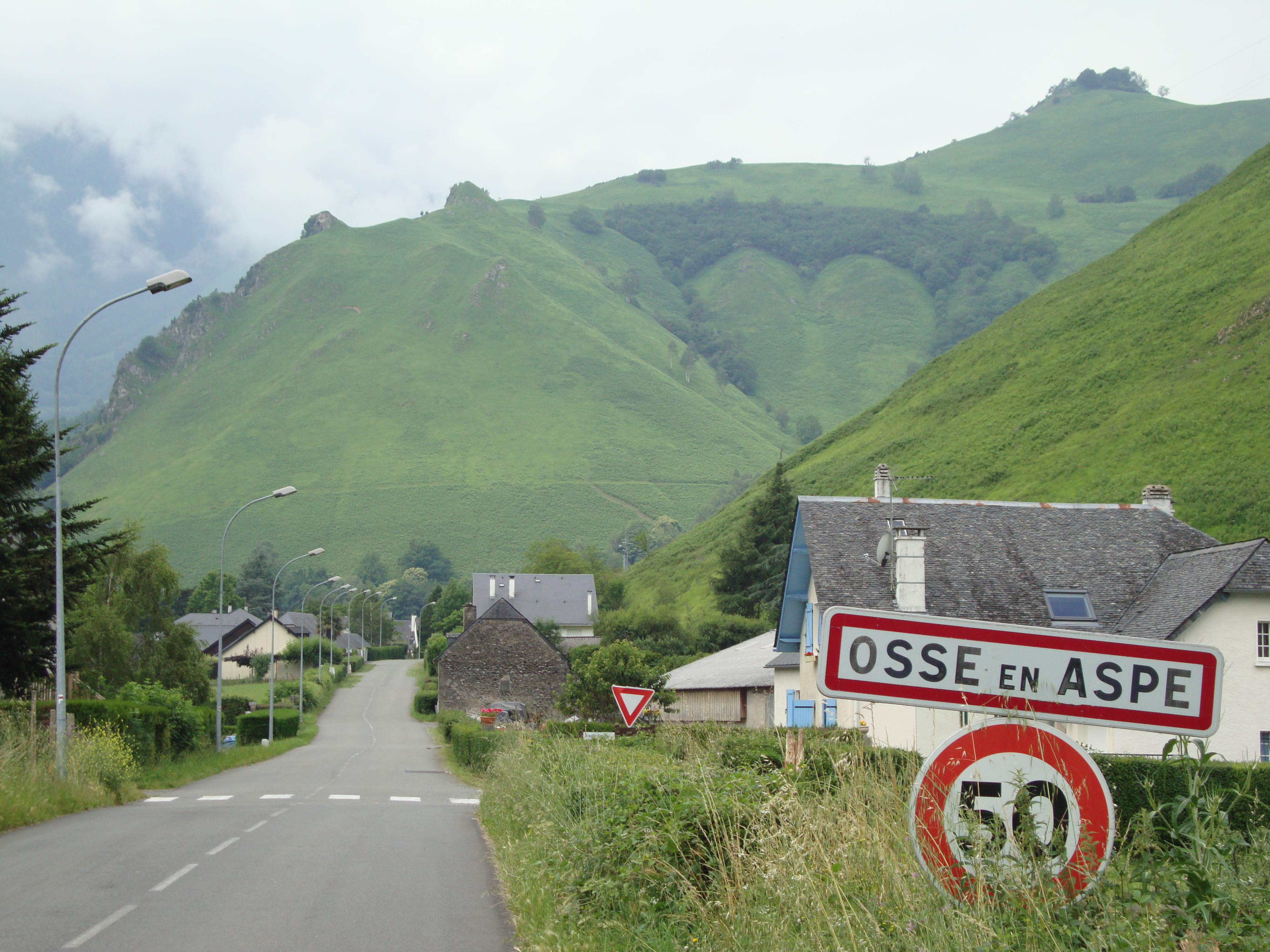 Osse-en-Aspe'(Pyr-Atl, Fr) village entrance